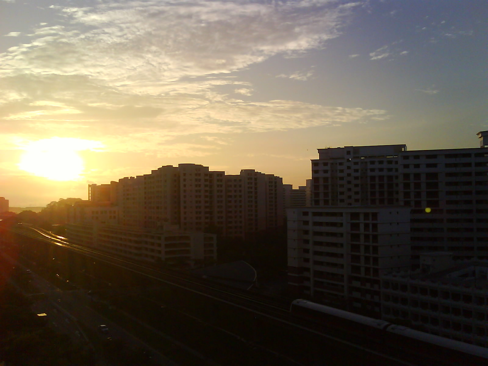 Shehababdulaziz